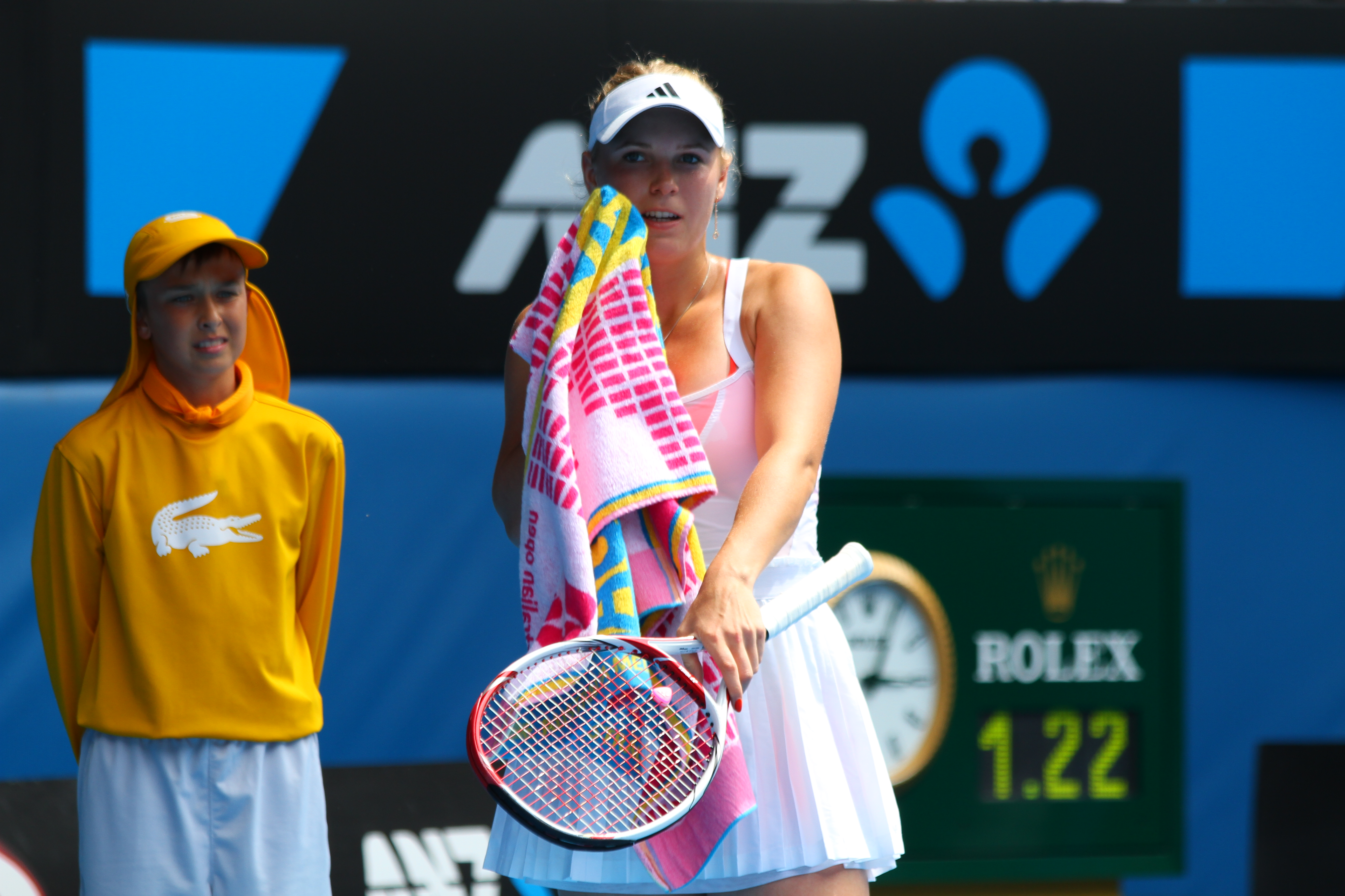 Caroline Wozniacki towelling down between points against Li Na in their AO semi final